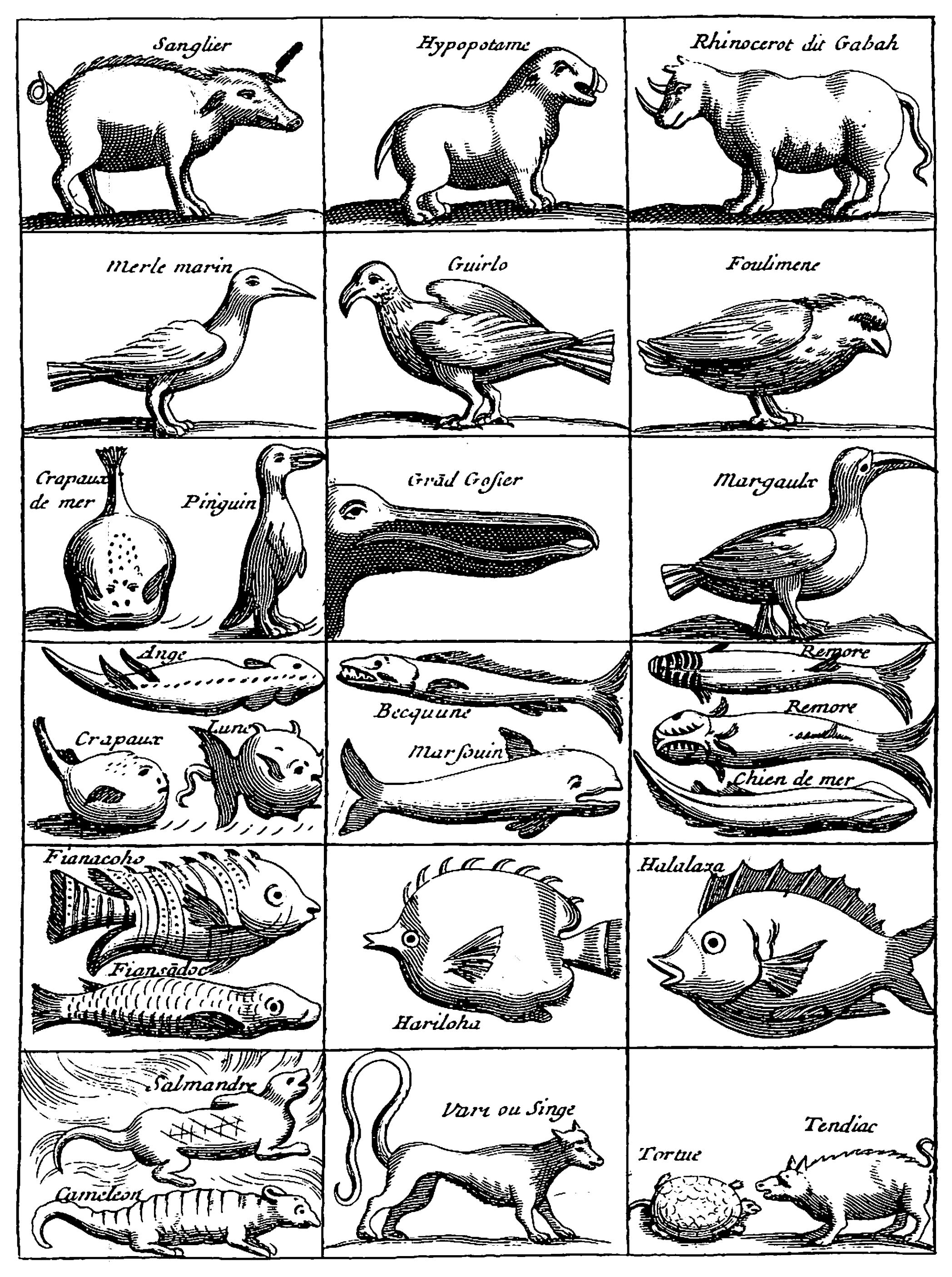 Table from Flacourt's book Histoire de la grande isle Madagascar from 1658 with the first illustration of the Tenrec